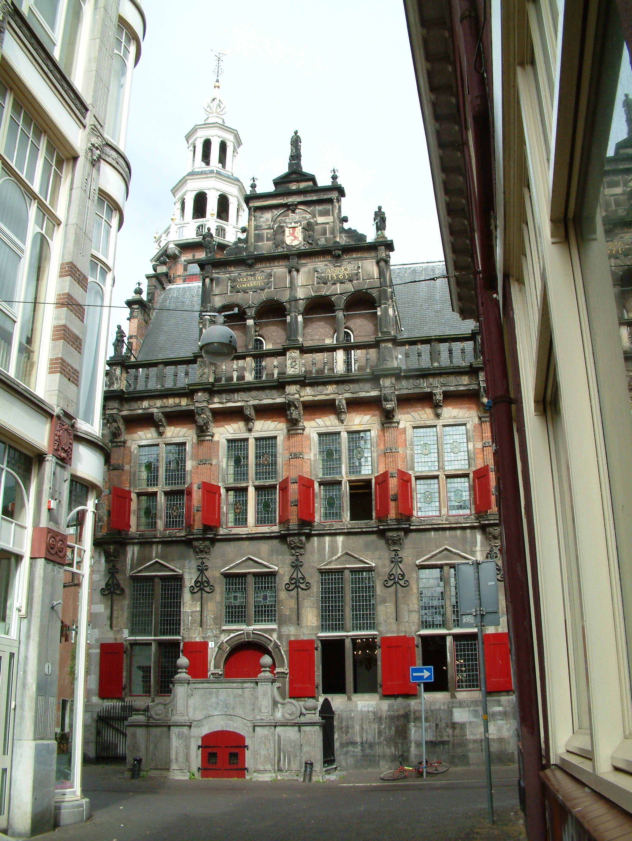 The old townhall of The Hague